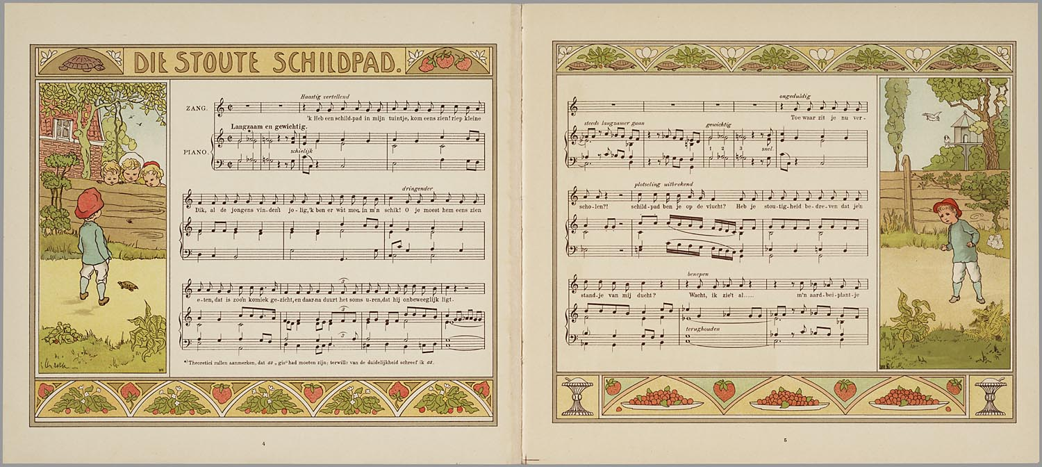 Page from Het boekje van Tante An / versjes en muziek van Anna Lambrechts-Vos ; versiering van W. Hardenberg